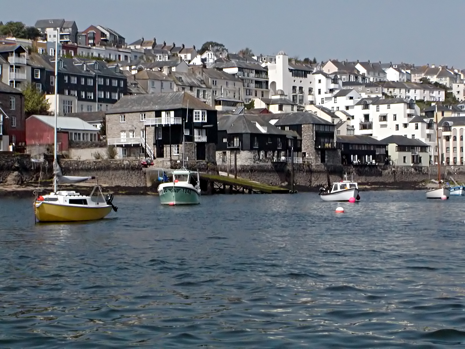 Falmouth, Cornwall, as seen from the seaside